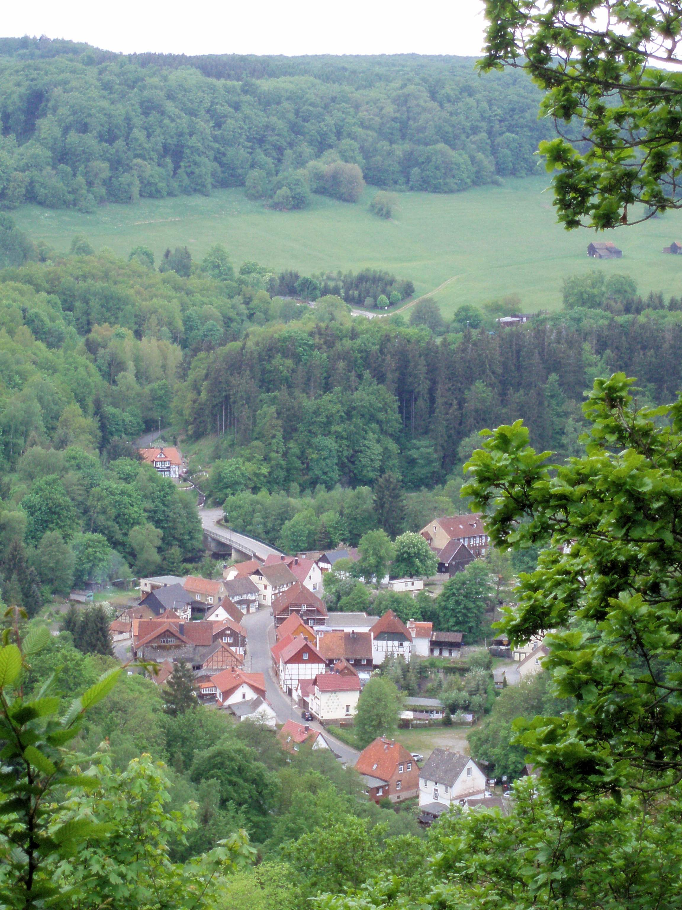 View from the Böser Kleef crags of the village of Altenbrak, Harz mountains, Germany